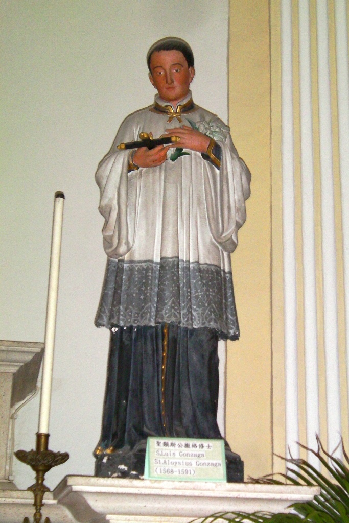 This photo was taken by myself on a trip to Macao